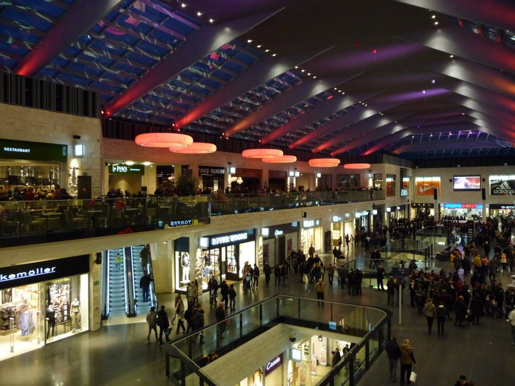 Interior of the shopping mall K in Kortrijk at night